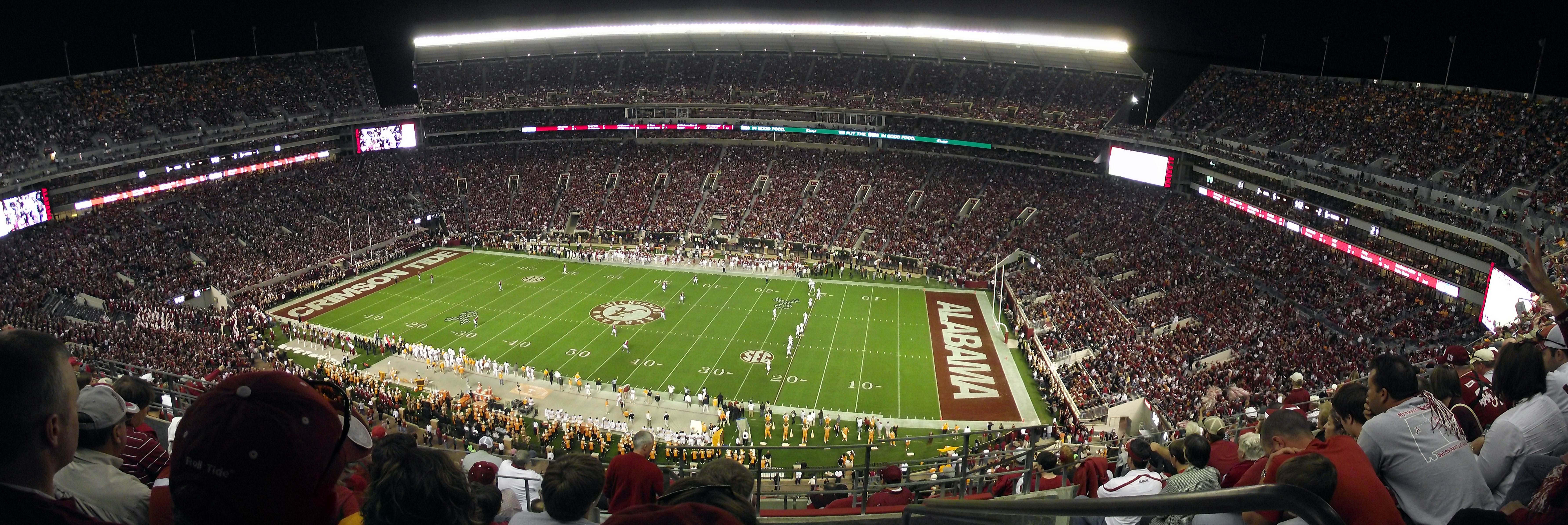 A panoramic view of the interior of Bryant-Denny Stadium during an Alabama football game versus the Tennessee Volunteers.